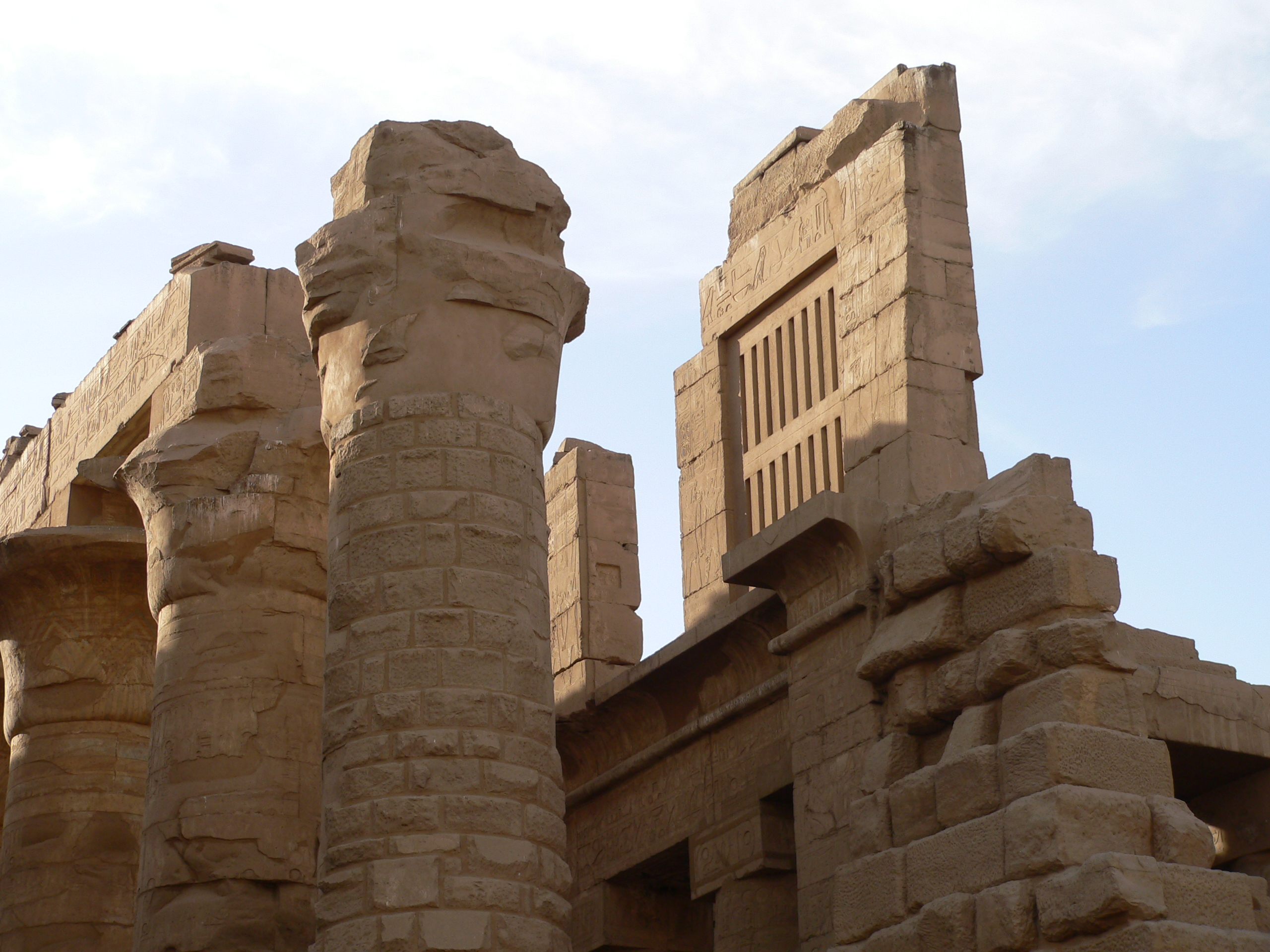 Karnak Temple, Hypostyle Hall' columns